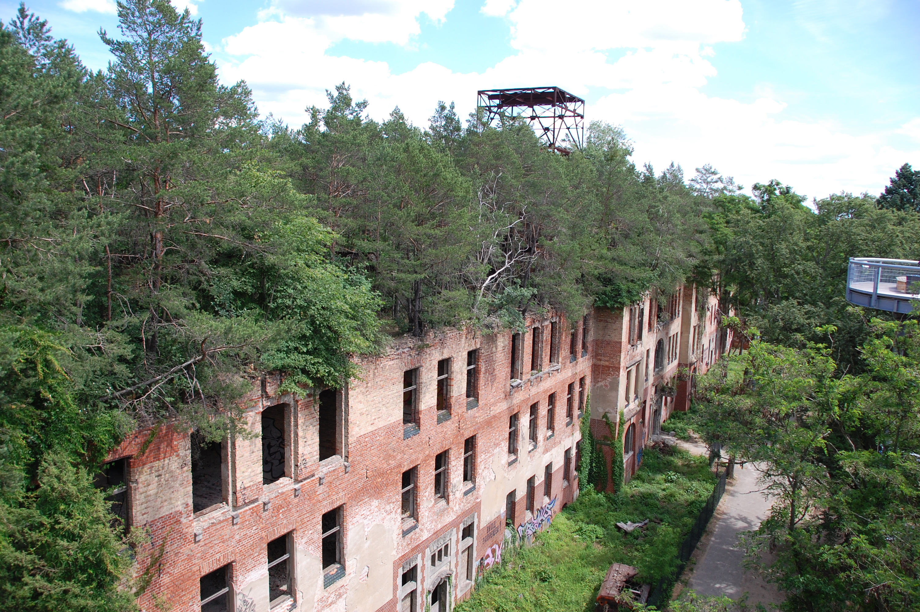 View from treetop walk Beelitz at former hospital ruin